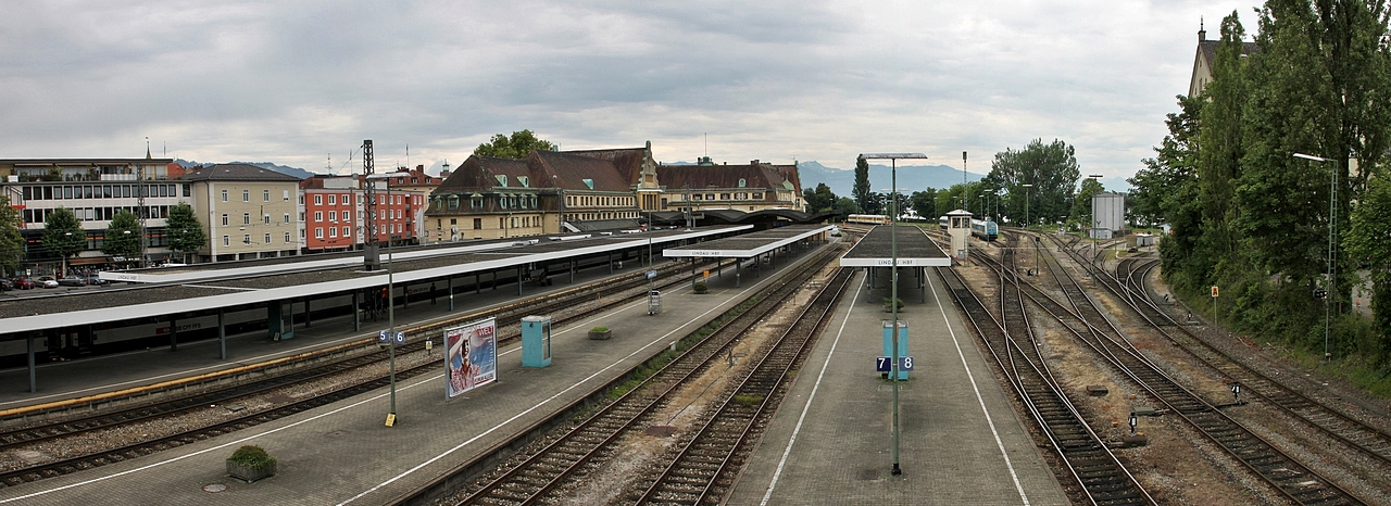 Lindau: central train station.